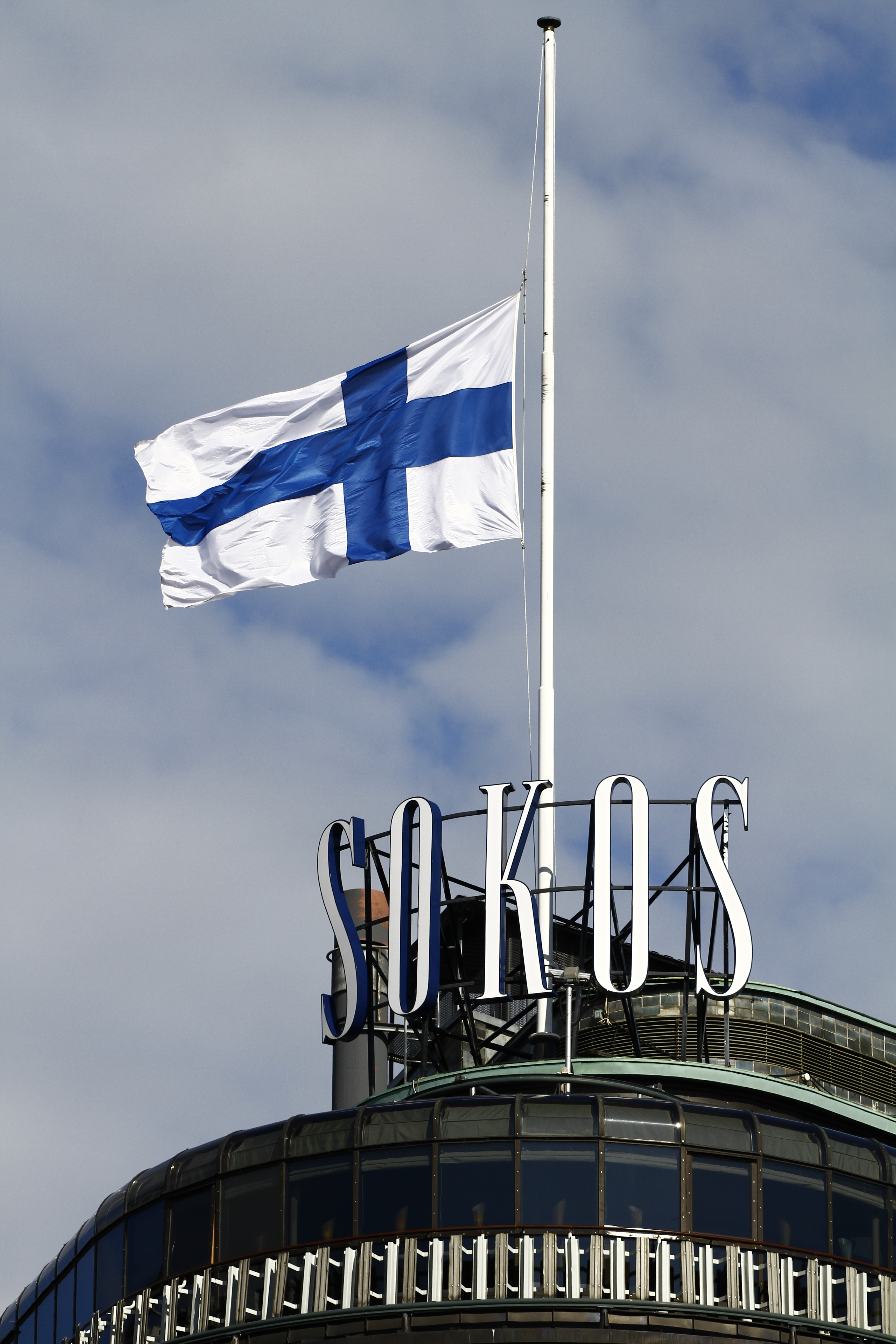 Finland paying respect to the victims on Norway attack 2011